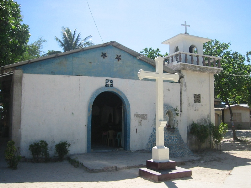 Manamoc island. Personal photograph, May 2004. Released under GFDL.